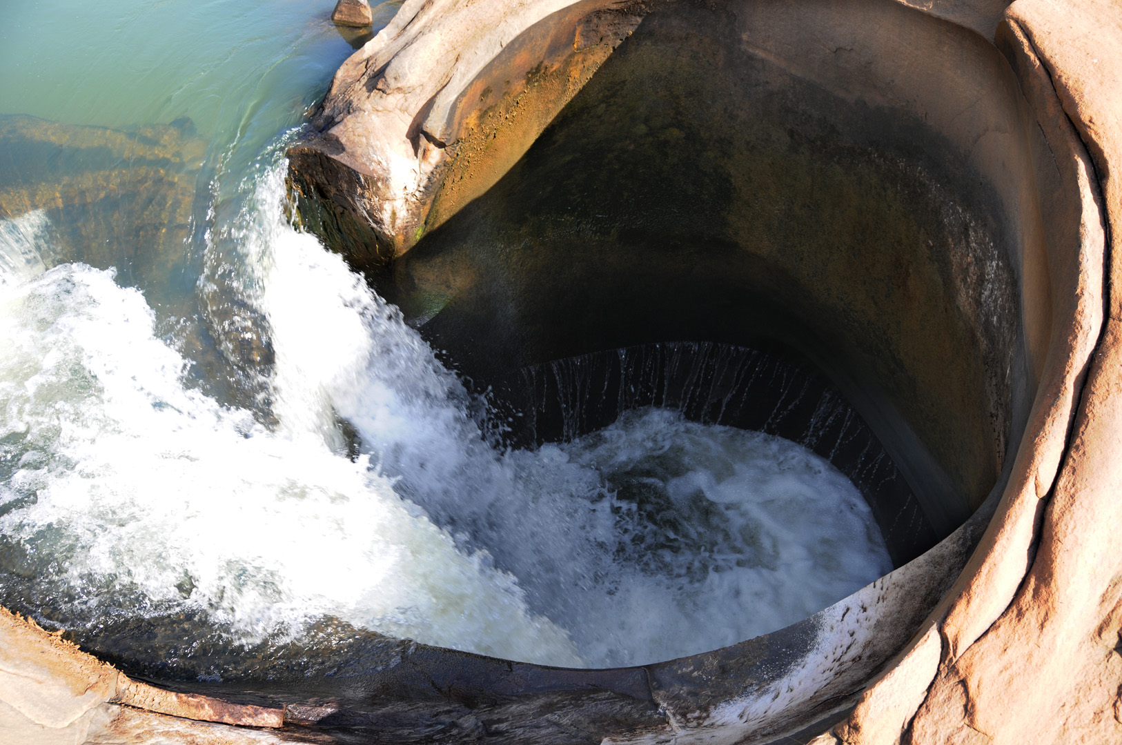 Felou falls